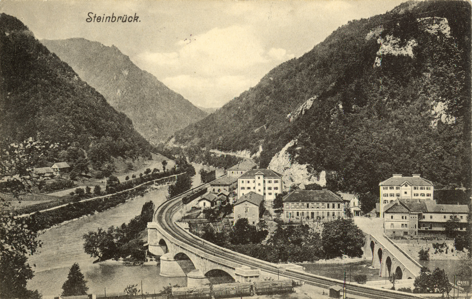 A 1914 postcard from Zidani Most, Slovenia